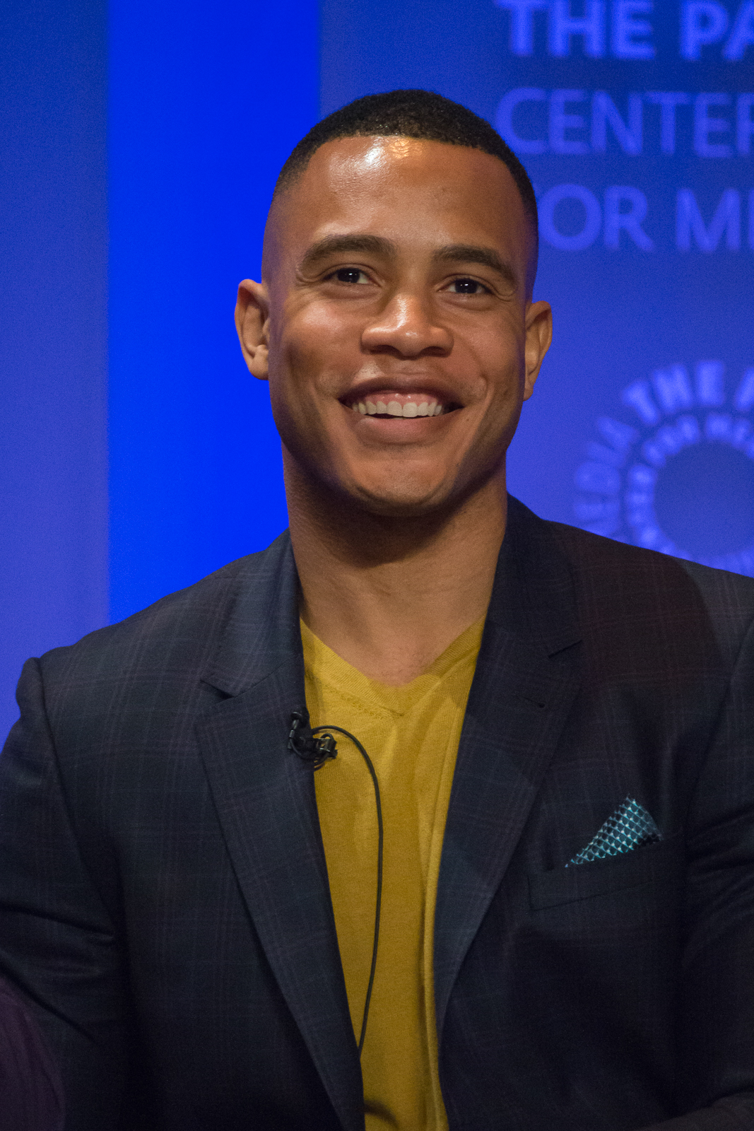 Trai Byers at the 2016 PaleyFest presentation in Los Angeles for the TV show Empire